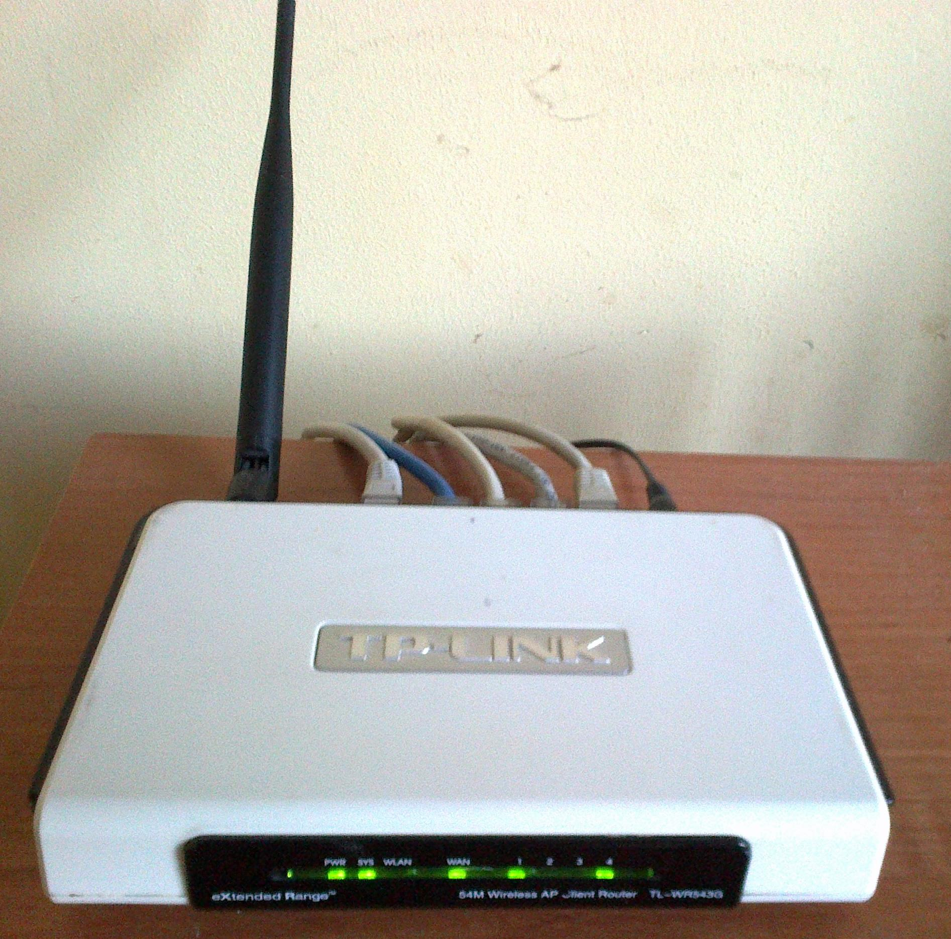 Access Point Client Router - TP-LINK TL-WR543G